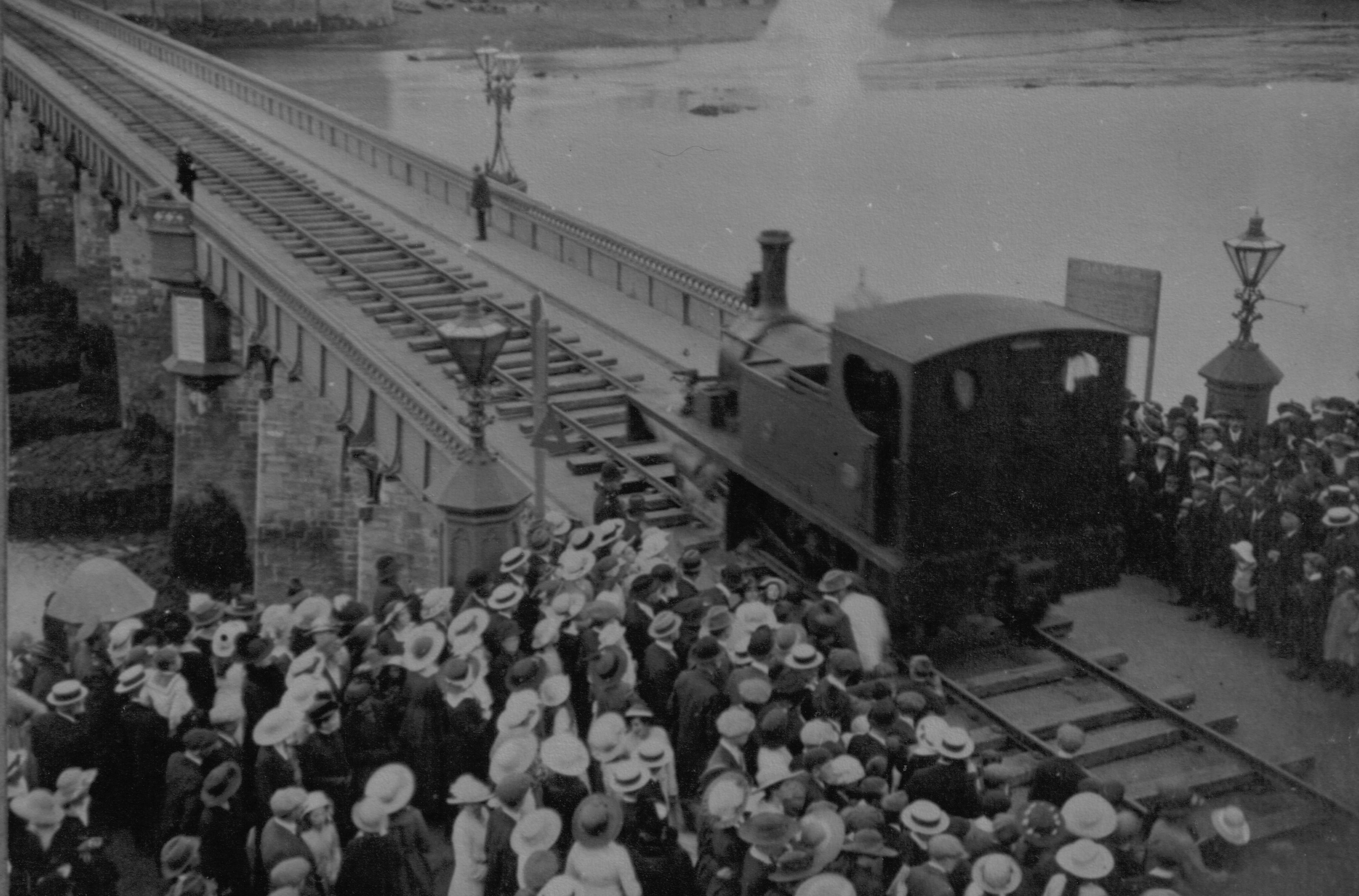 A locomotive crossing Bideford Bridge, North Devon, England.